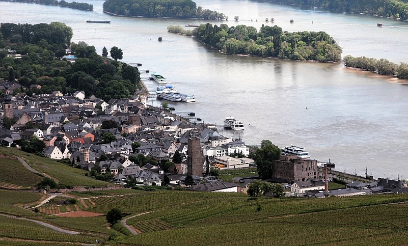 Rüdesheim am Rhein, view from the Niederwalddenkmal